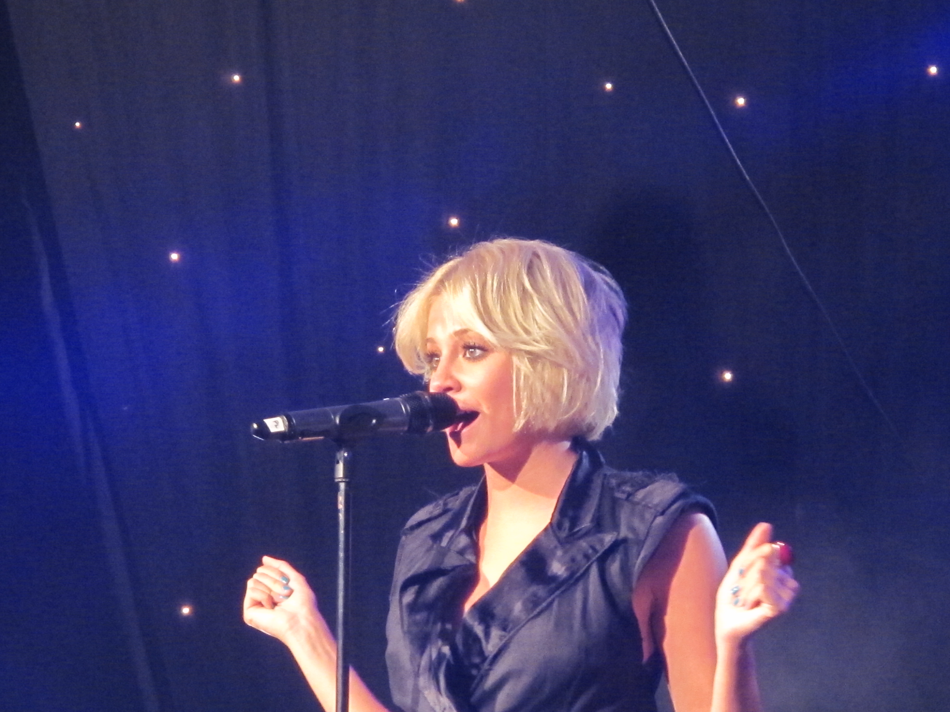 Pixie Lott performing at the Arqiva Awards 2011.